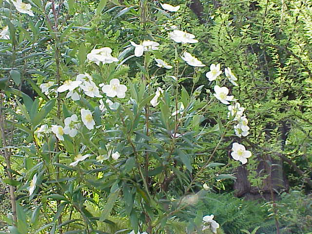 Species: Carpenteria californica Family: Hydrangeaceae Image No. 1